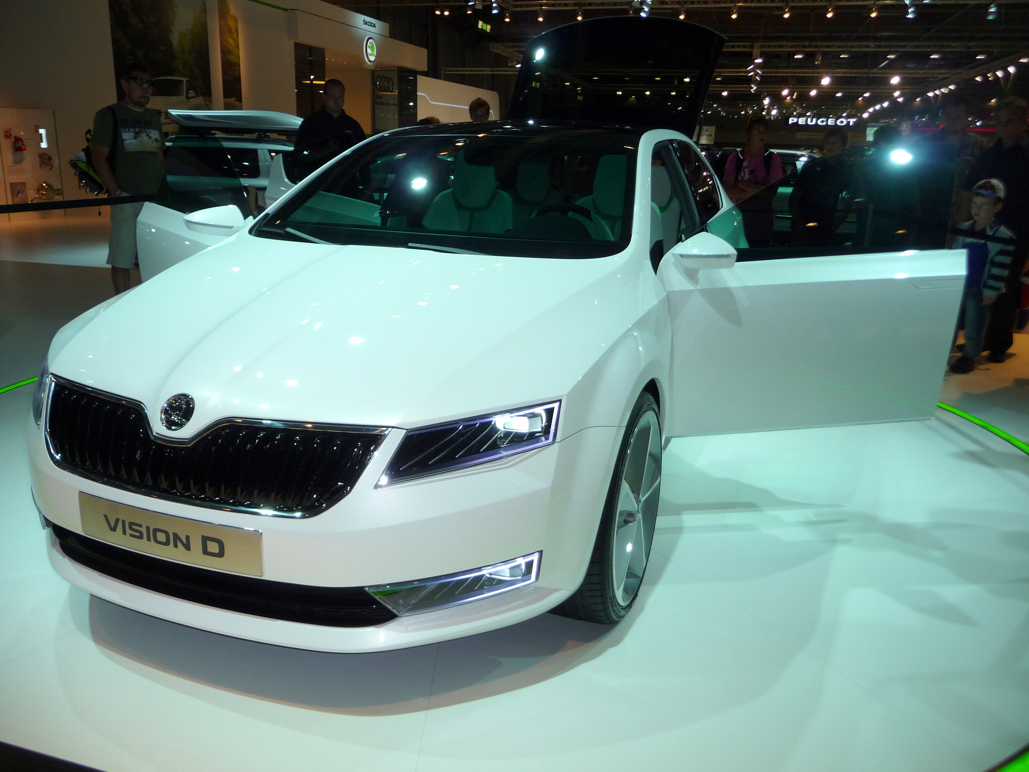 Škoda Vision D, Autosalon Brno 2011, The Brno Exhibition Grounds -10 -5 -3 -2 ◄ ► +2 +3 +5 +10